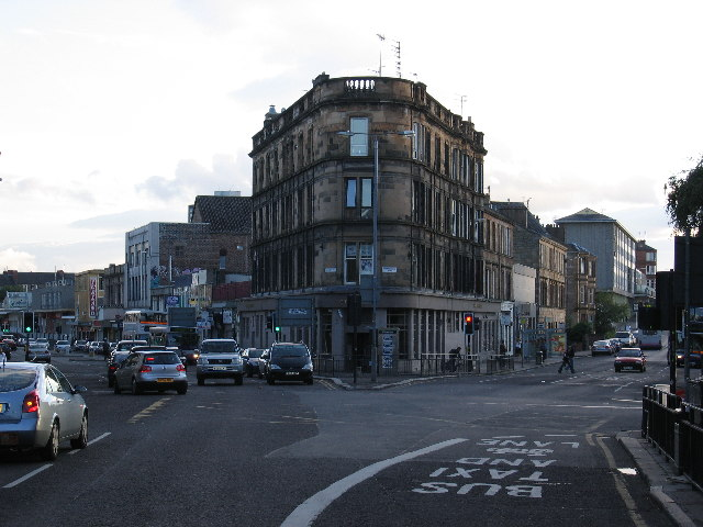 Shawlands Cross. Going south from central Glasgow you get to Shawlands Cross where there's the Granary pub (Previously Samuel Dow's). Left is Kilmarnock Road, Right Pollokshaws Road